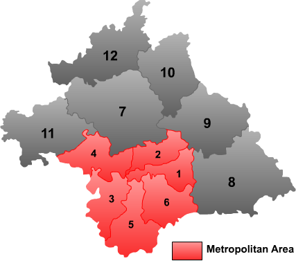 Map of Nanning in Guangxi AR